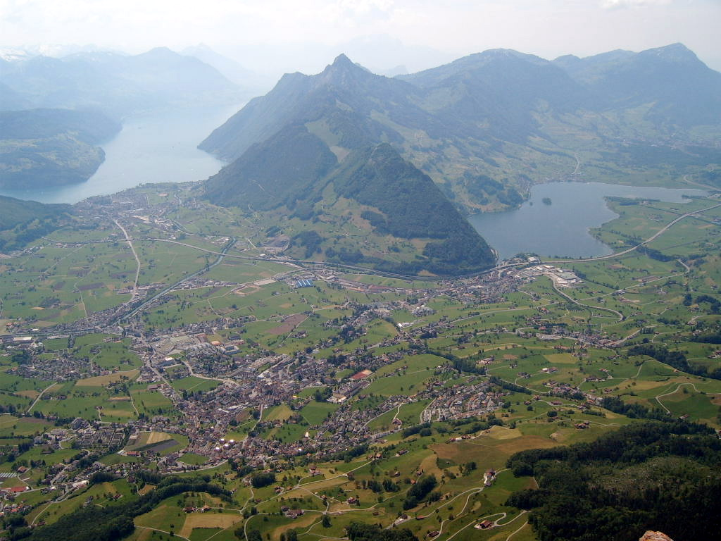 Schwyz with Lake Lucerne, Mount Rigi and Lake Lauerz, seen from Grosser Mythen (Switzerland)